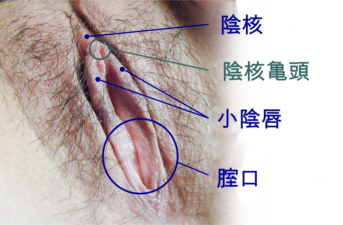 I made a Japanese version. Based on English version. If I made a mistake, let me know. 陰核の画像 （日本語版）